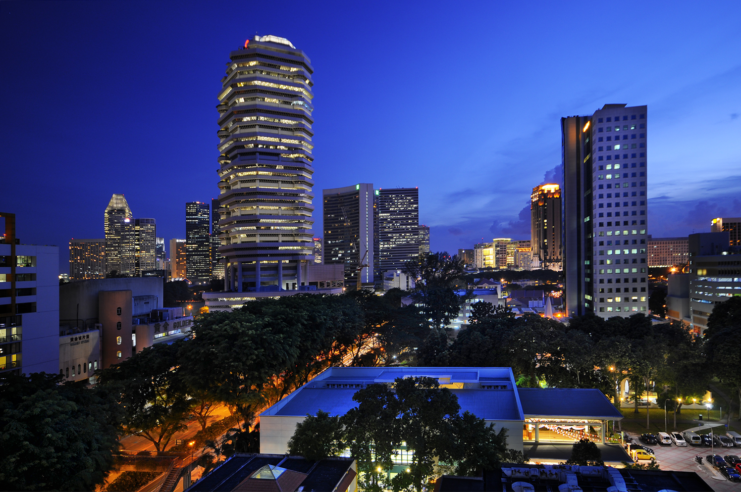 Beach Road A sandy beach once existed close by before the land was reclaimed. Over the years, Nicoll Highway and later Marina Square and Suntec City (on the left bg) were built on the reclaimed land, pushing Beach Road even further inland. The tallest building on the foreground is The Concourse . Shot from a HDB block at the starting point of Beach Road (opp Golden Mile Complex )